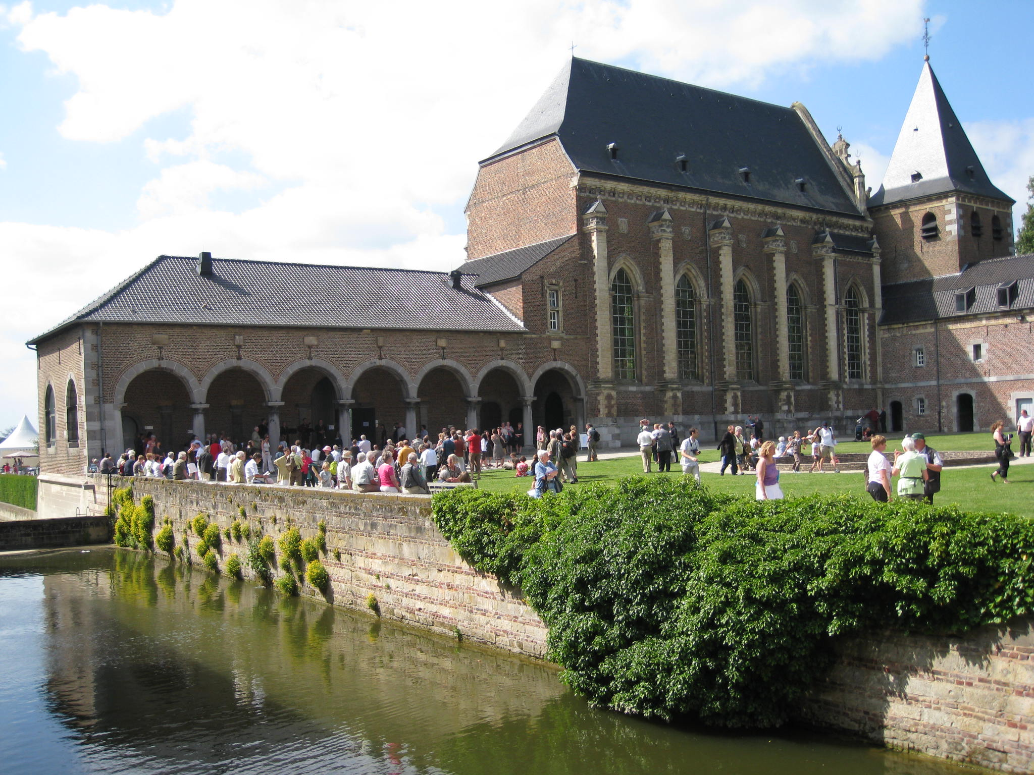 Dag van de Oude Muziek, Alden Biezen, 2008